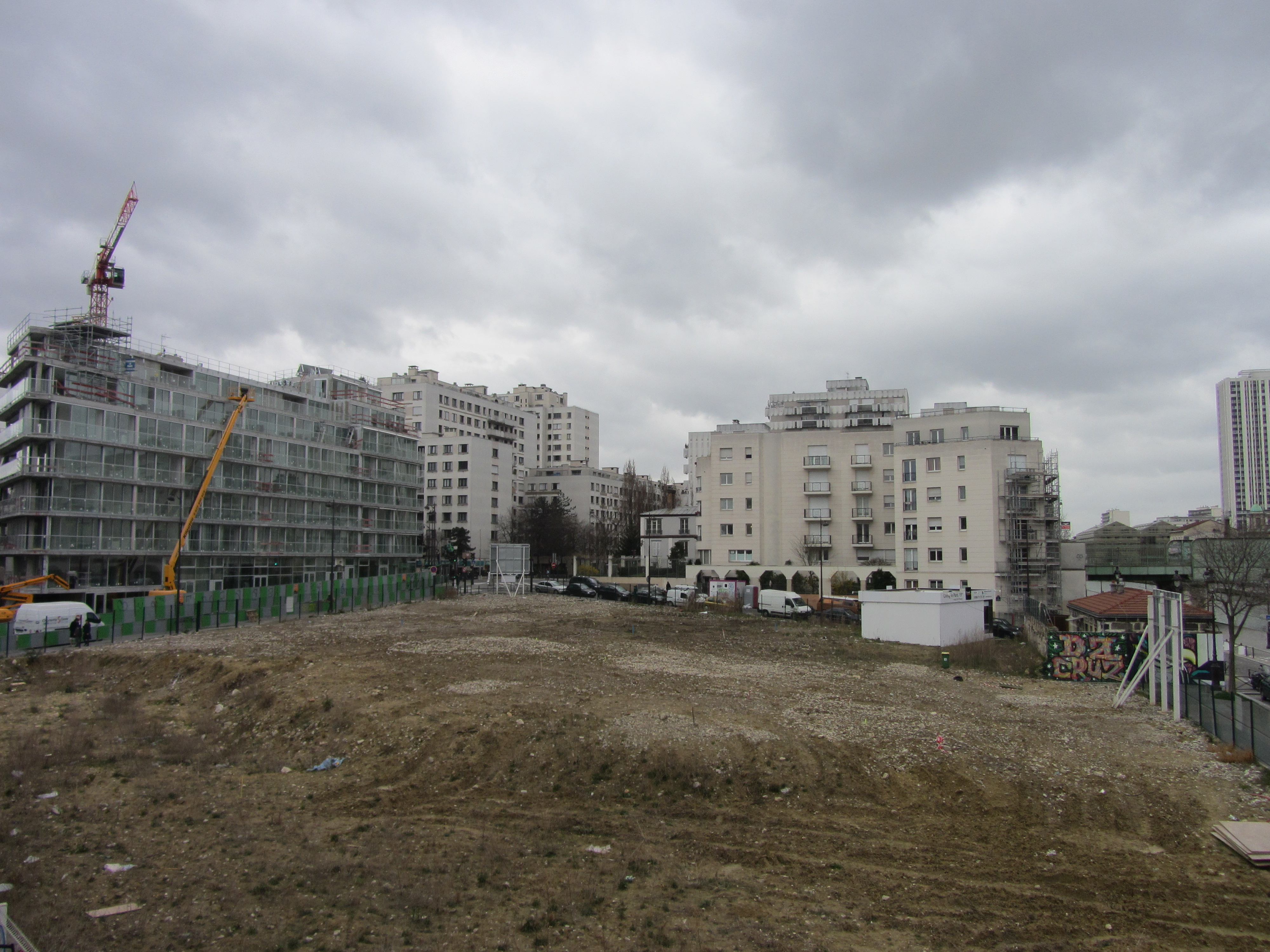 This document was produced using the Canon PowerShot SX230 HS lent by Wikimedia France.